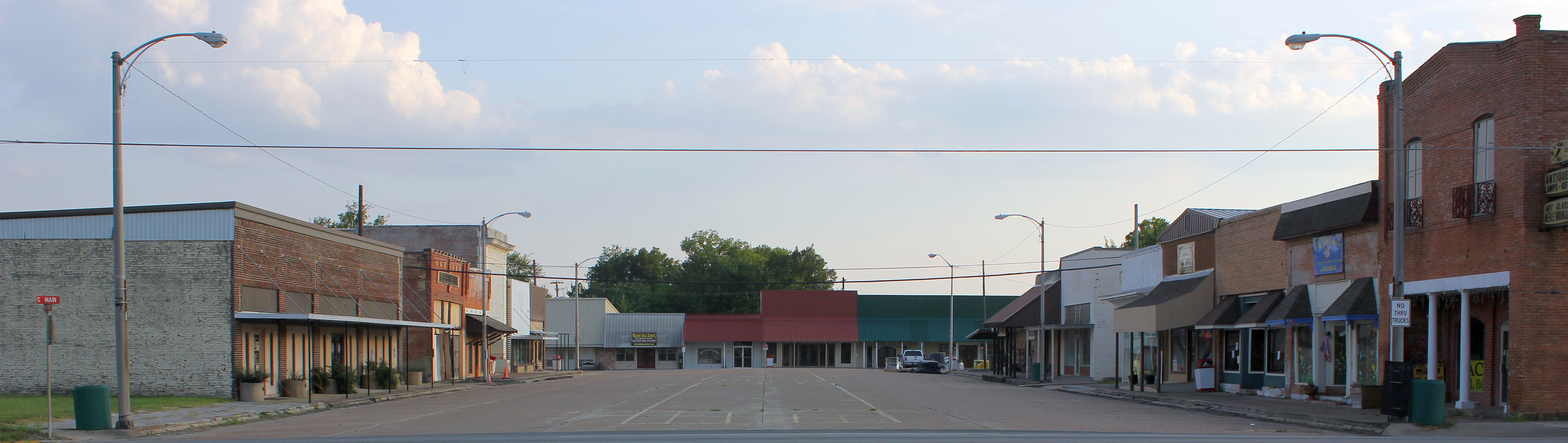 Groveton, Texas